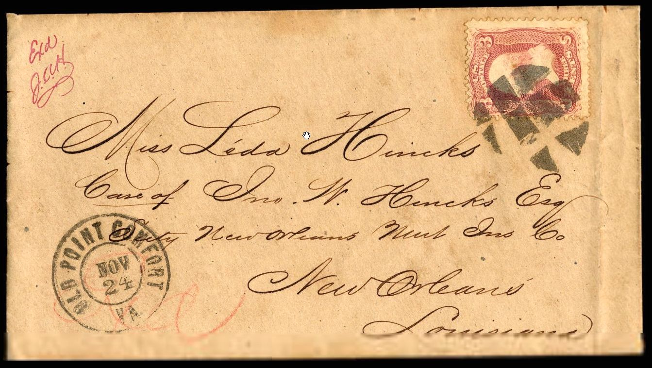 US mailed cover, with 1863 US postage stamp